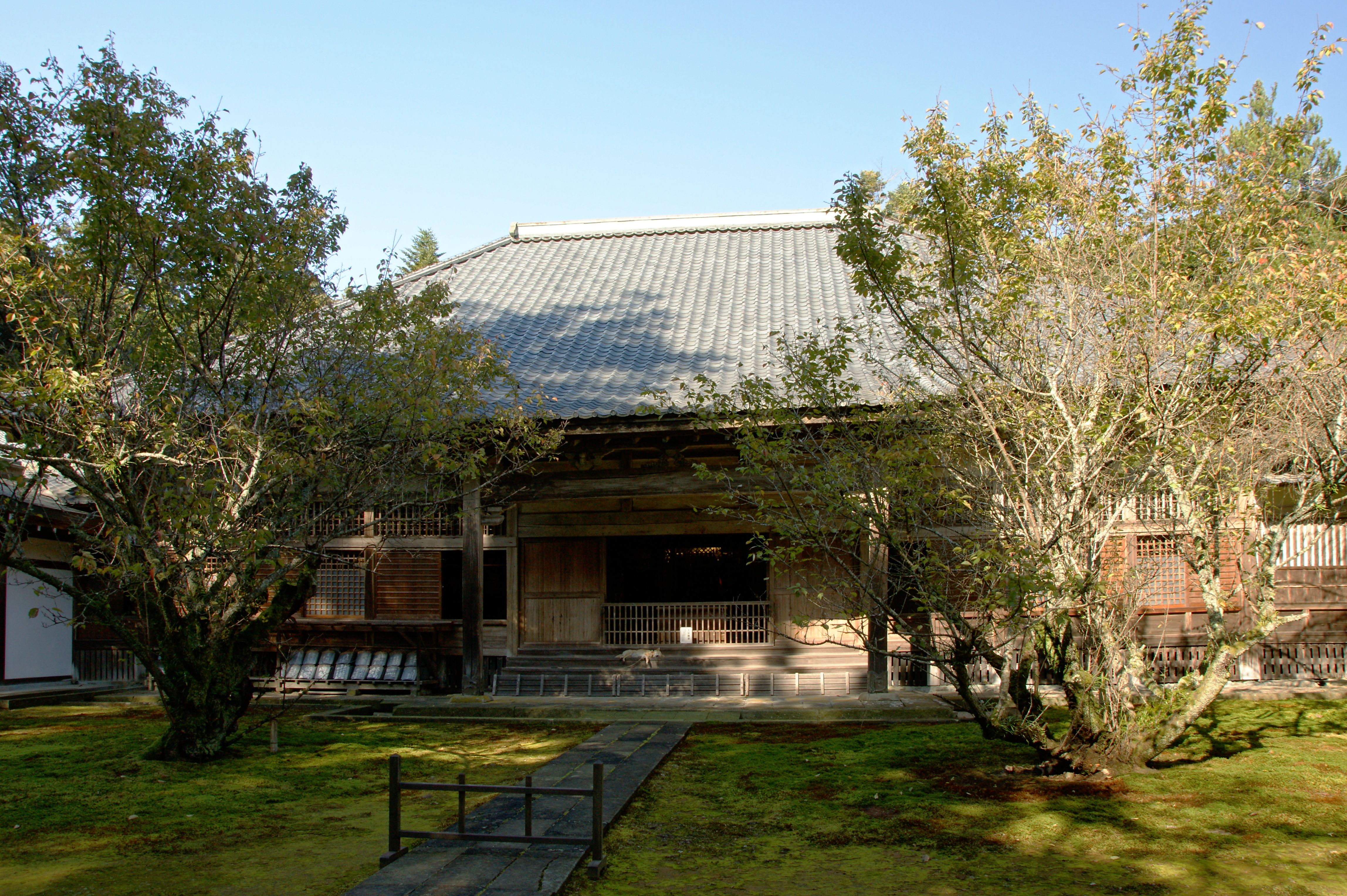 Takidanji, Sakai, Fukui prefecture, Japan